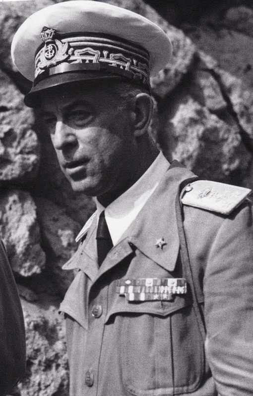 Italian Admiral Gino Pavesi after his capture at the fall of Pantelleria (Operation Corkscrew).